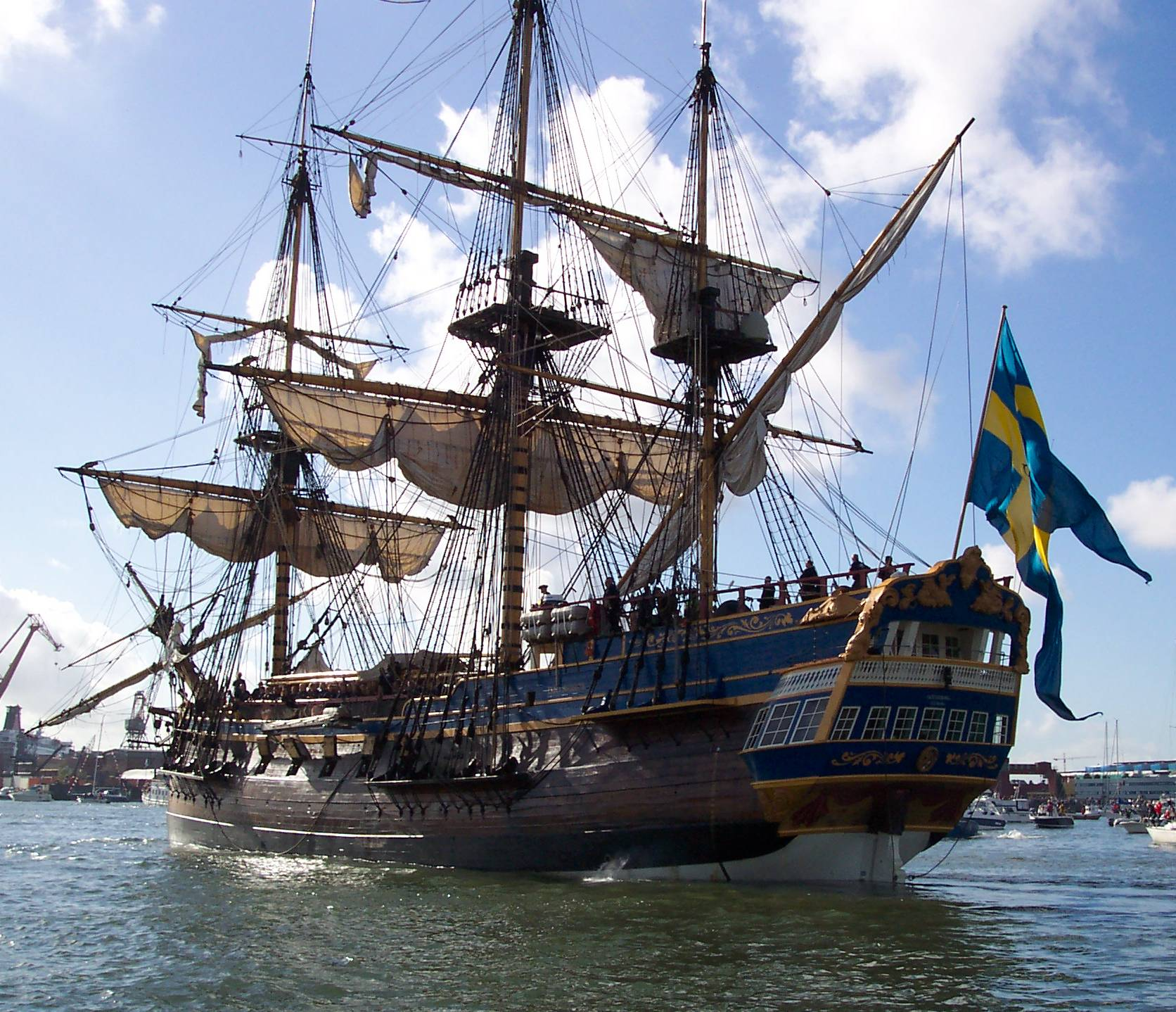 Departure of the ship "Ostindiefararen Götheborg" from Gothenburg in October 2005